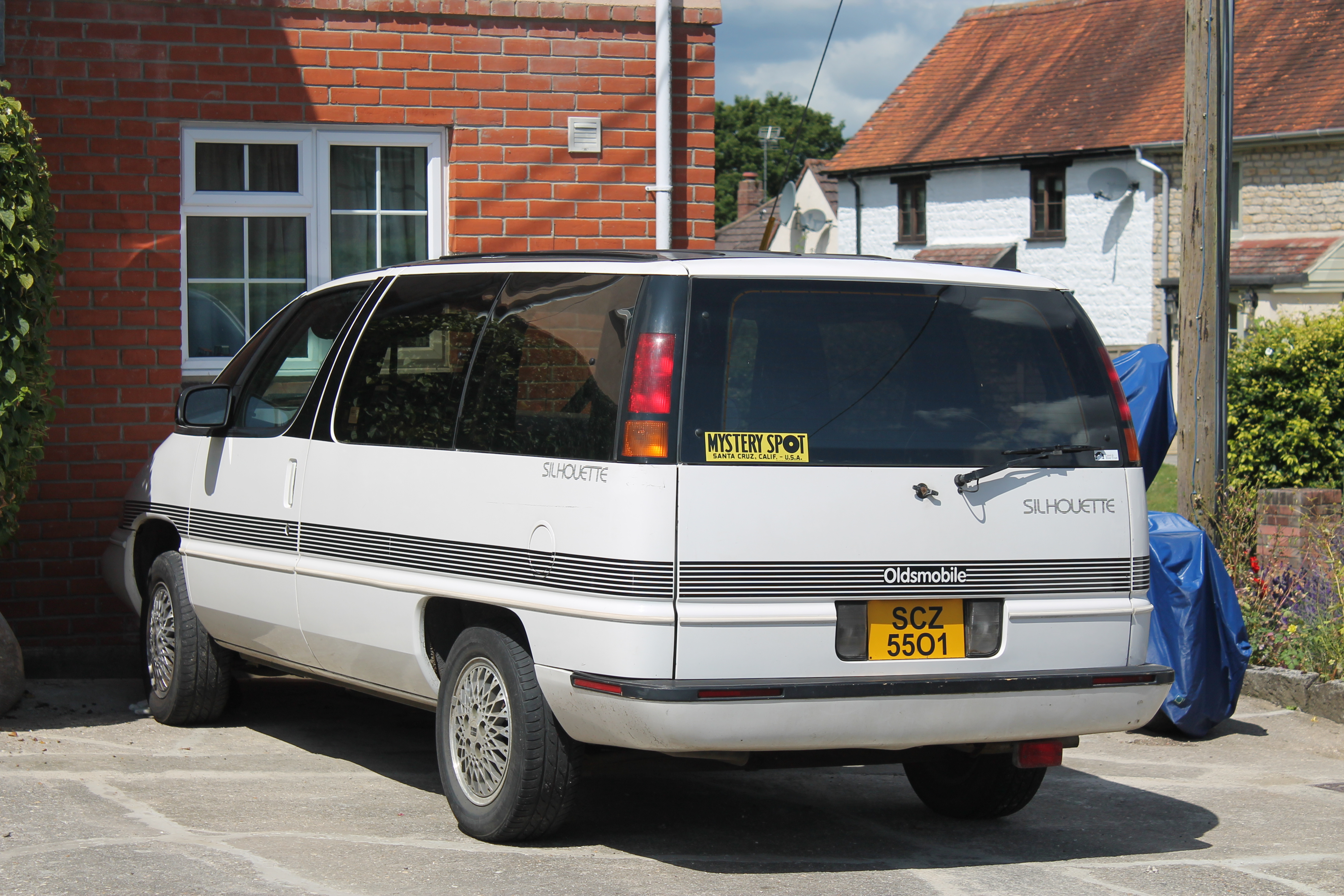 I love obscurer US imports, and this '91 Oldsmobile Silhouette really appeals to me. First of all, its rather radical styling is interesting, also the fact it looks really original. I love the stripes along the side with the 'Silhouette' stickers. Can't imagine they're common in the UK. These were actually sold in Europe under the Pontiac brand, called the Trans Sport. This is a genuine US Oldsmobile though, built in North Tarrytown, New York, before it closed in 1996. Interestingly came to the UK perhaps brand new, in April 1991. Note the sticker on the back, an advert for a strange tourist sight in California, called Mystery Spot. The vehicle details for SCZ 5501 are: Date of Liability 01 08 2014 Date of First Registration 29 04 1991 Year of Manufacture 1991 Cylinder Capacity (cc) 3100cc CO₂ Emissions Not Available Fuel Type PETROL Export Marker N Vehicle Status Licence Due to Expire Vehicle Colour WHITE Vehicle Type Approval Not Available